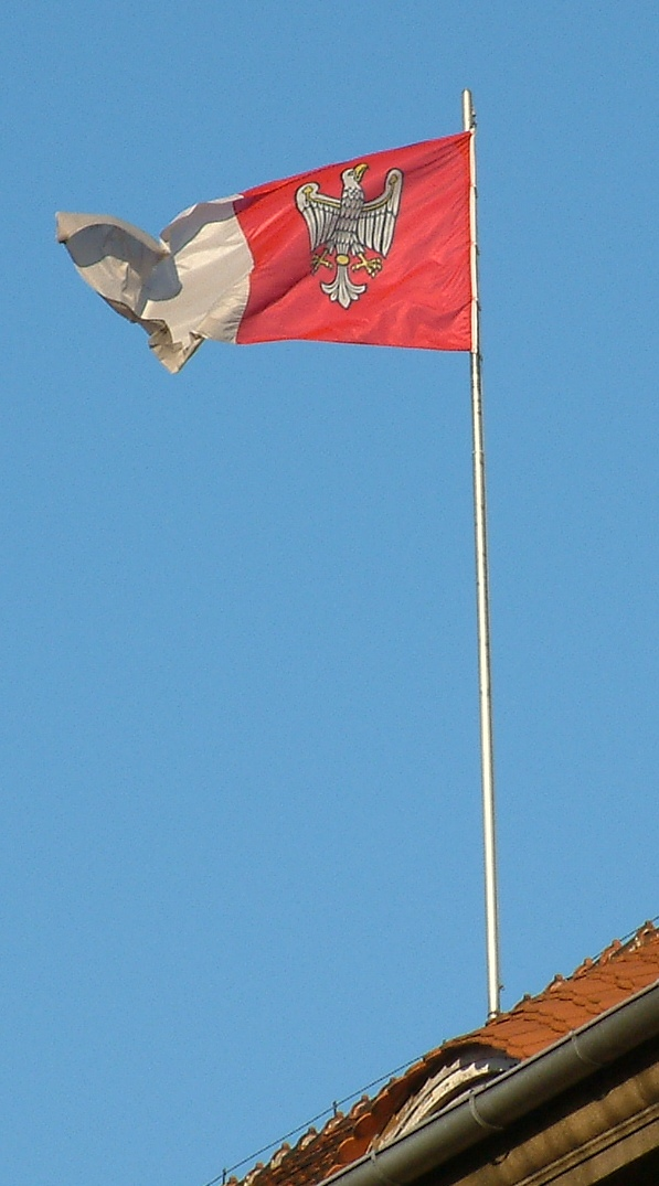 Flag of Greater Poland Voivodeship